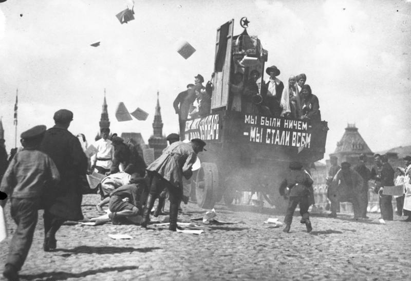 Inscription in